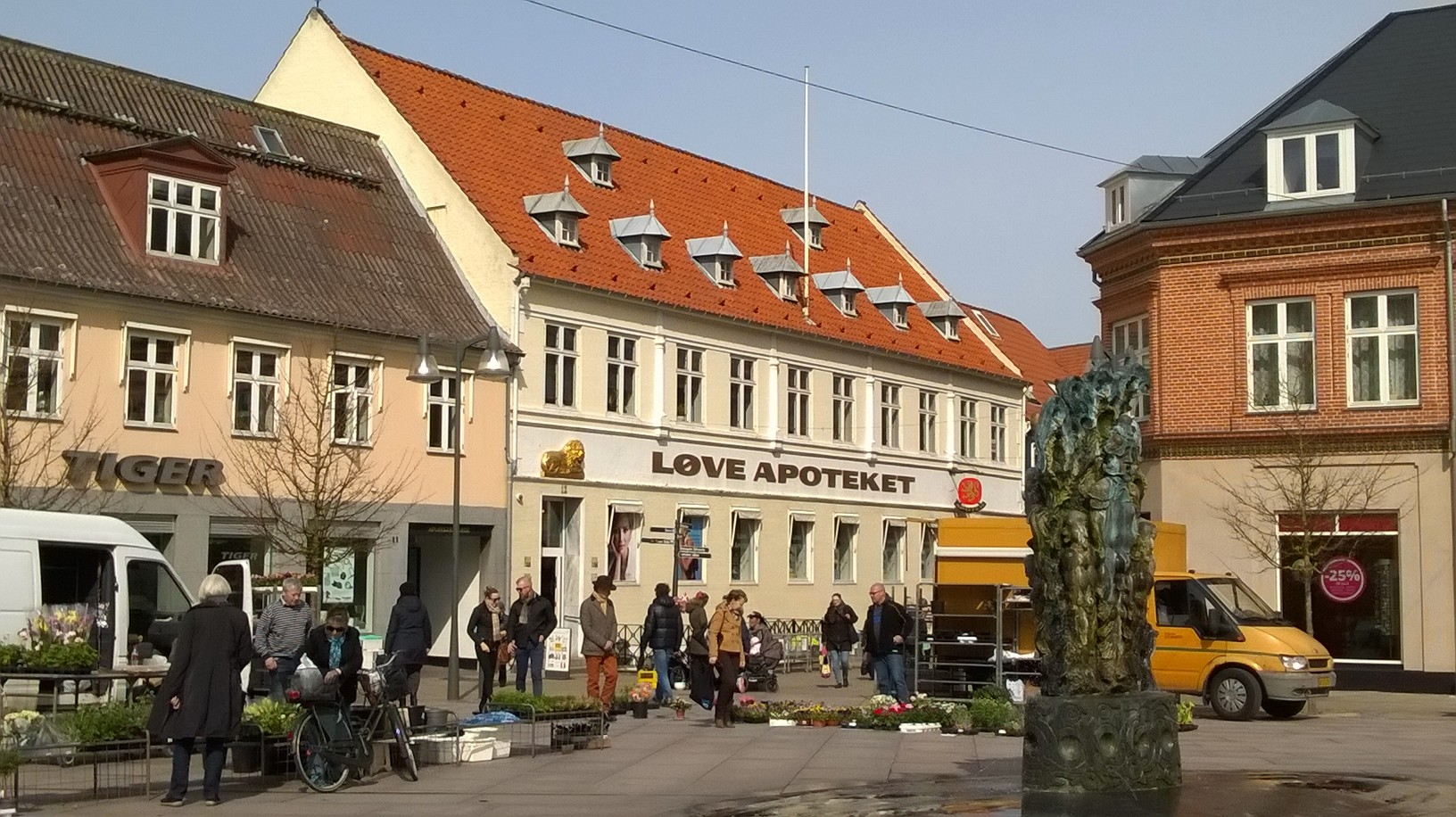 The pharmacy Næstved Løve Apotek (Næstved Lion Pharmacy) in Næstved, Denmark. Founded in 1640.